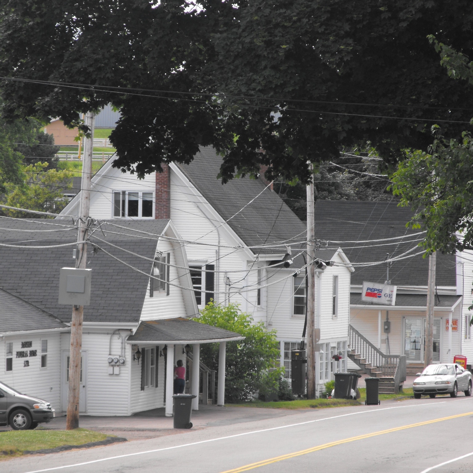 Main Street in Crapaud, PE, Canada